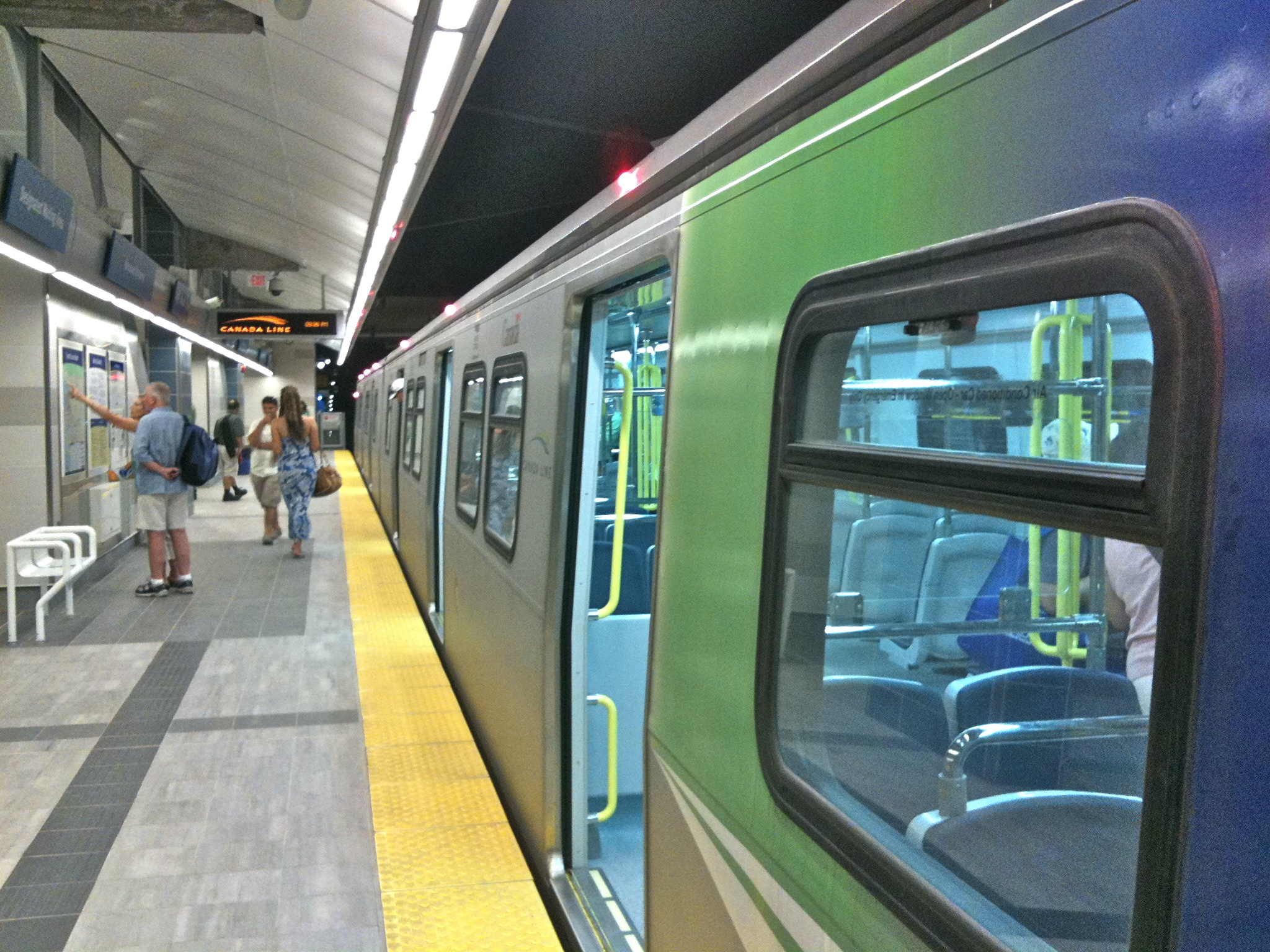 A Canada Line train at Vancouver City Centre Station of the Vancouver SkyTrain.